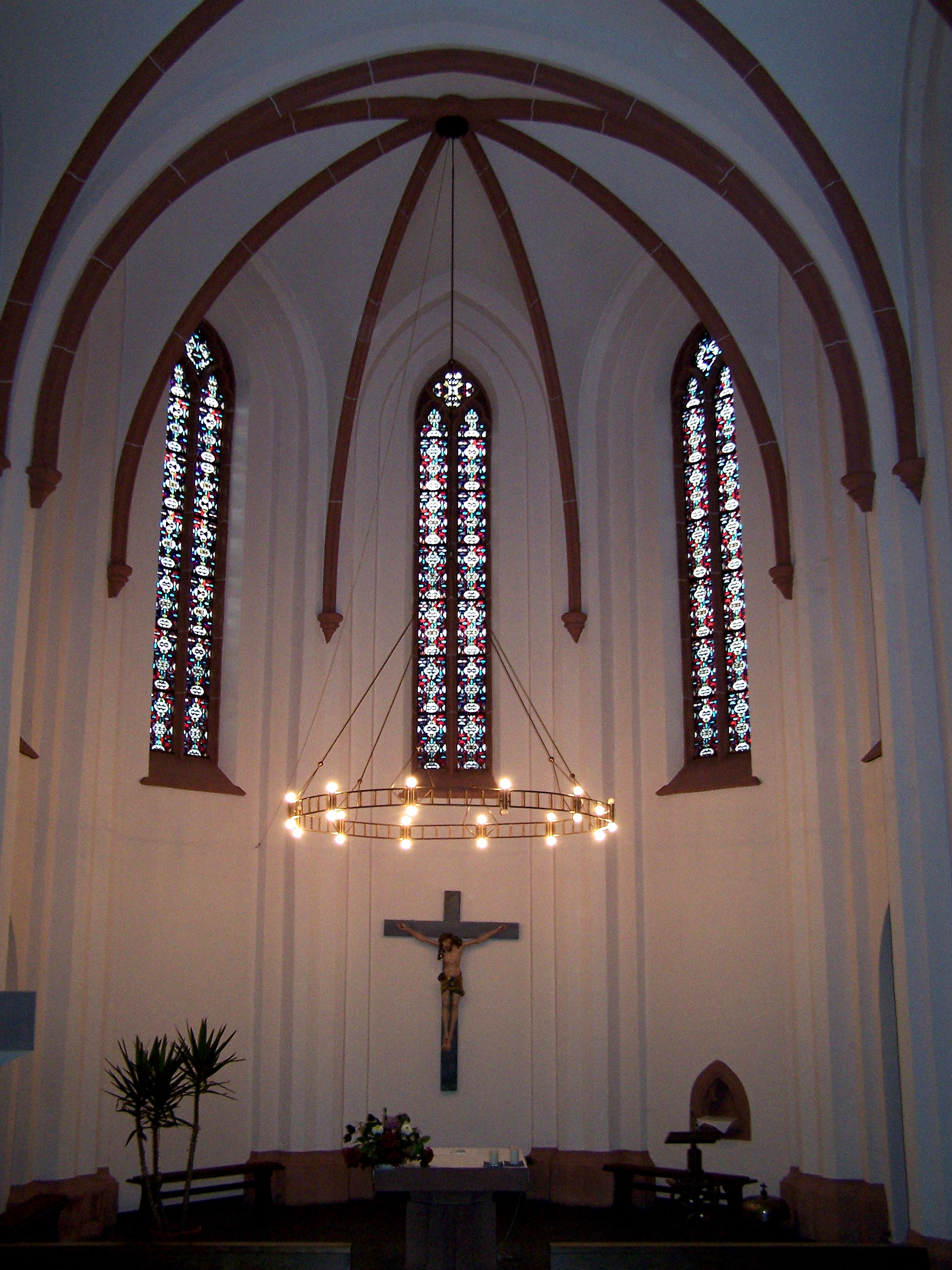 Nave of the old St.-Josefs Church in Frankfurt am Main-Bornheim of 1876, situation of 2009